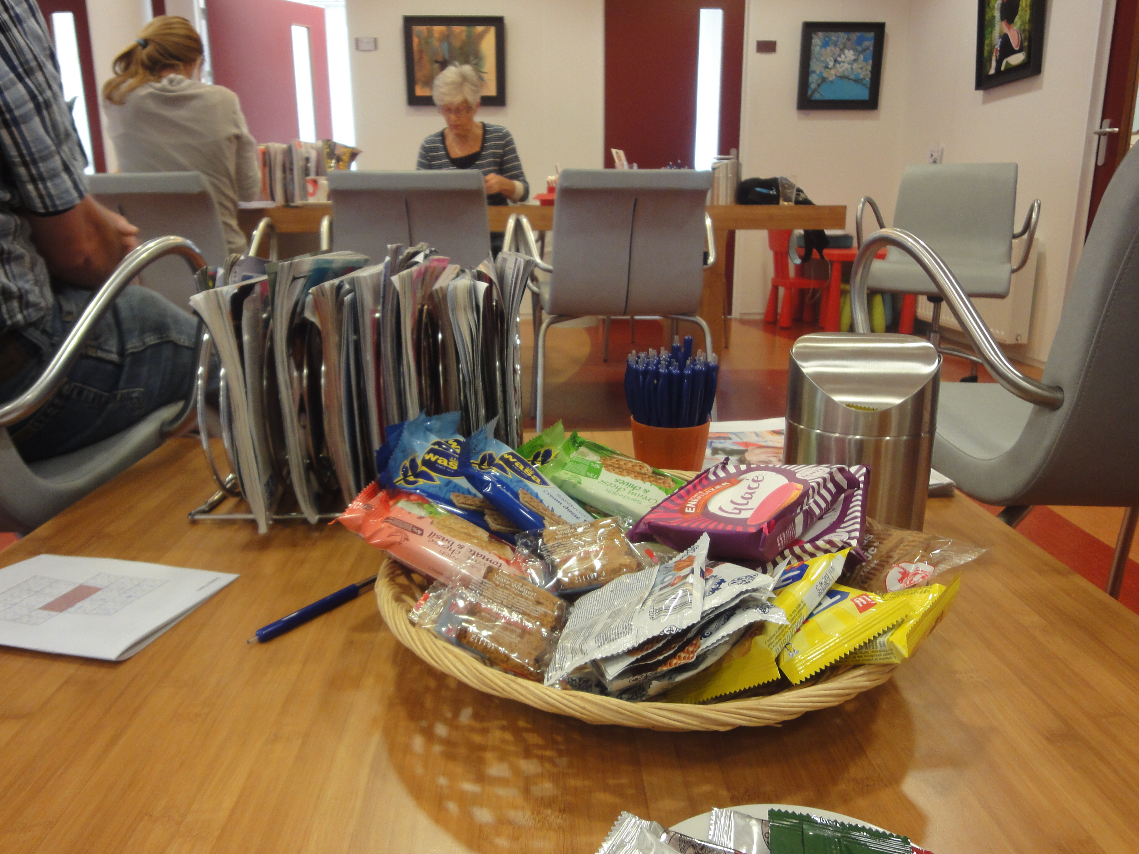 The waiting room at Sanquin blood bank